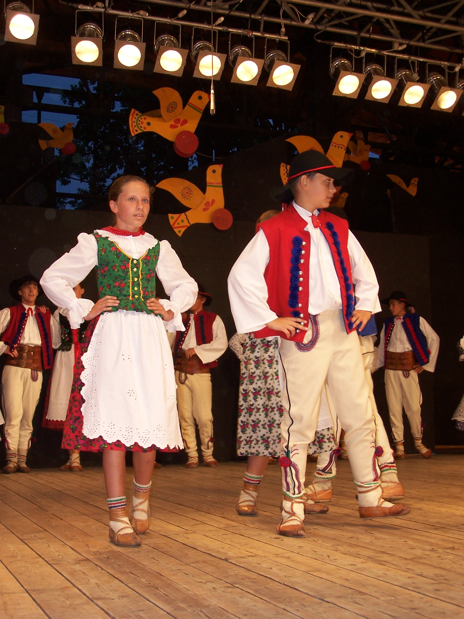 "Żywczanie" folk group wearing traditional Goral dress of Żywiec. Beskid cultural festival in Żywiec, Poland.